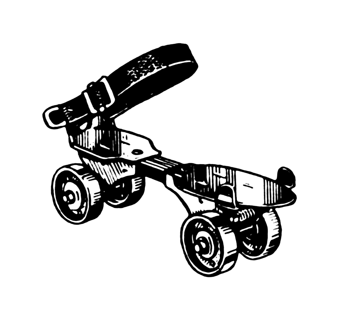 Line art drawing of a roller skate.